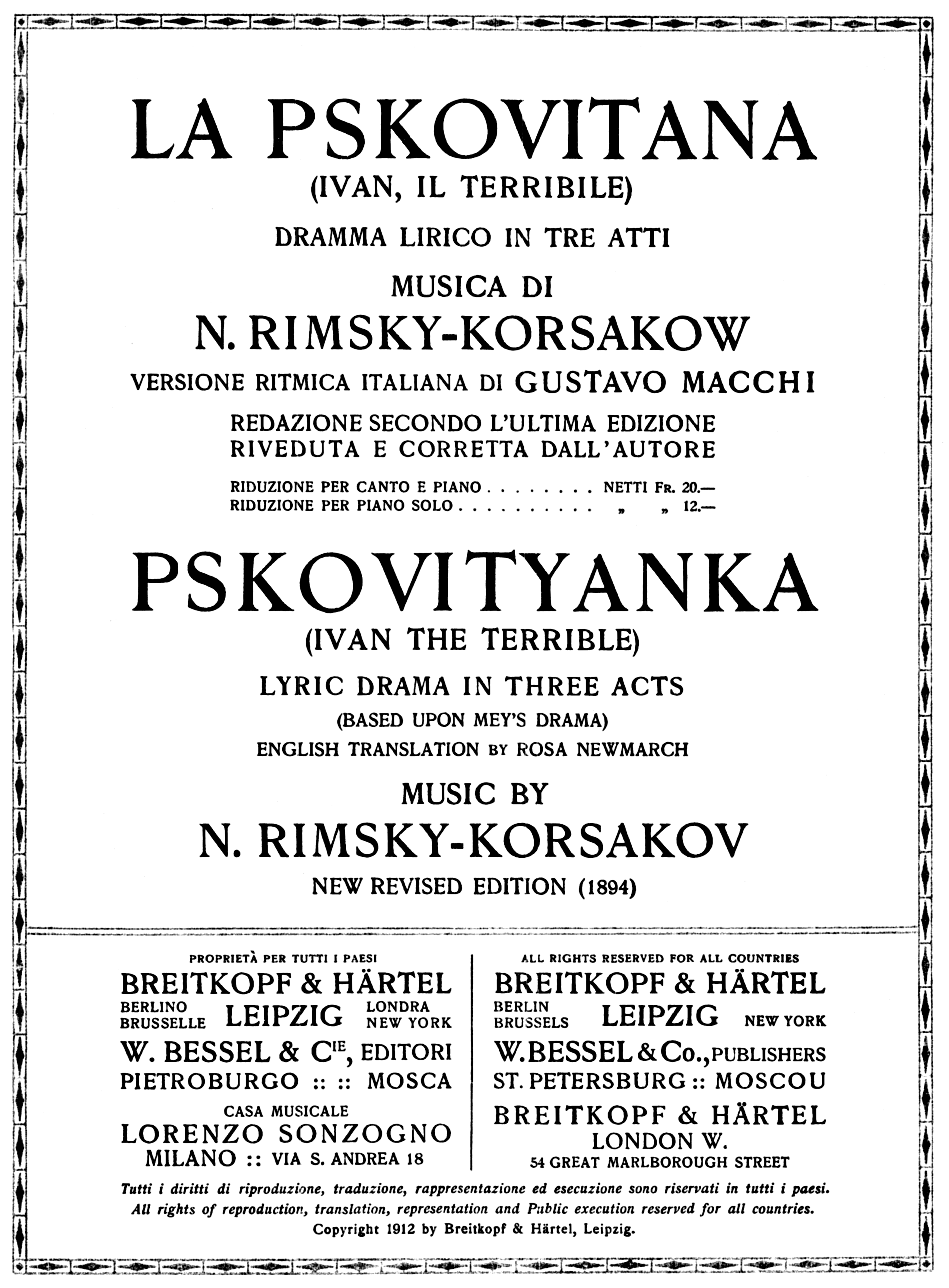 Rimsky-Korsakov - Pskovityanka - title page of the piano score, 1912